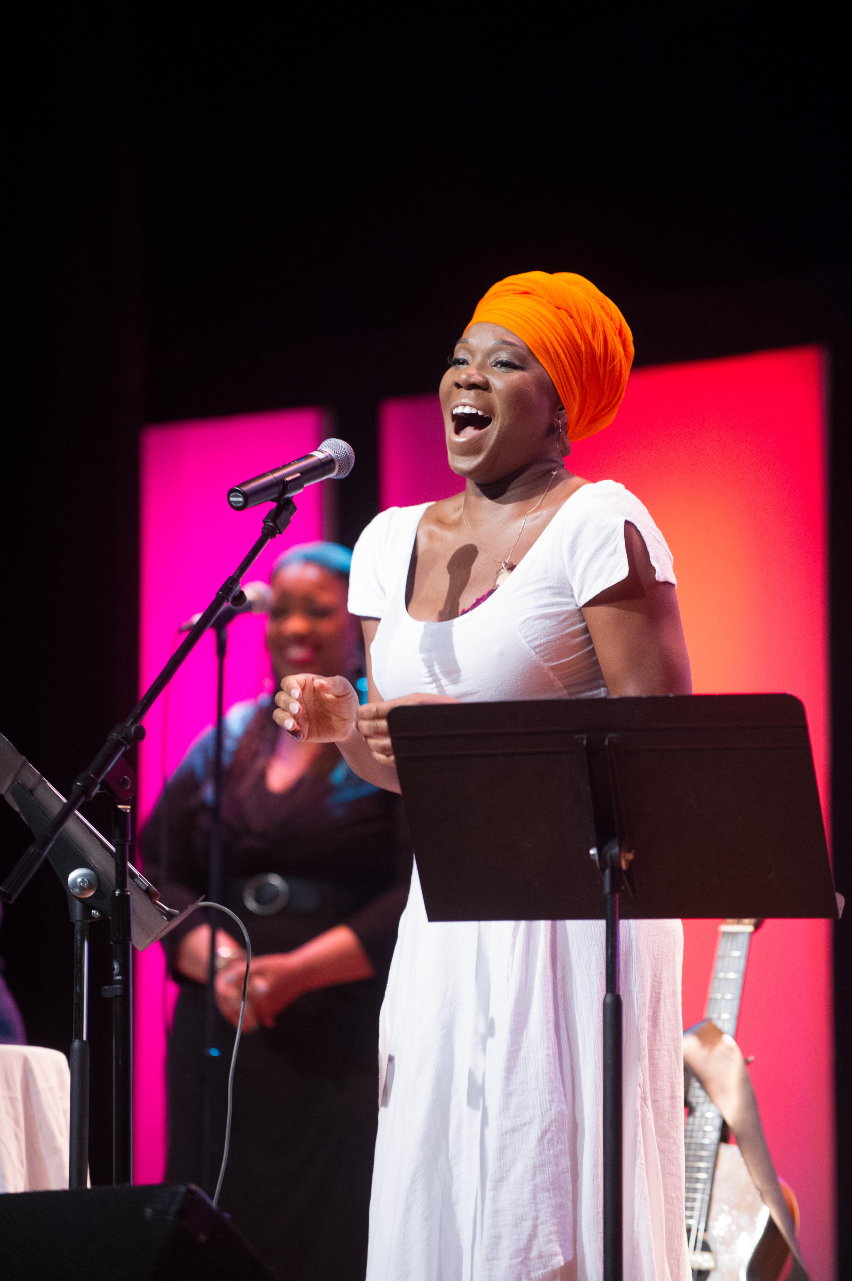 14165-India Arie-6236 India.Arie at Texas A&M University–Commerce